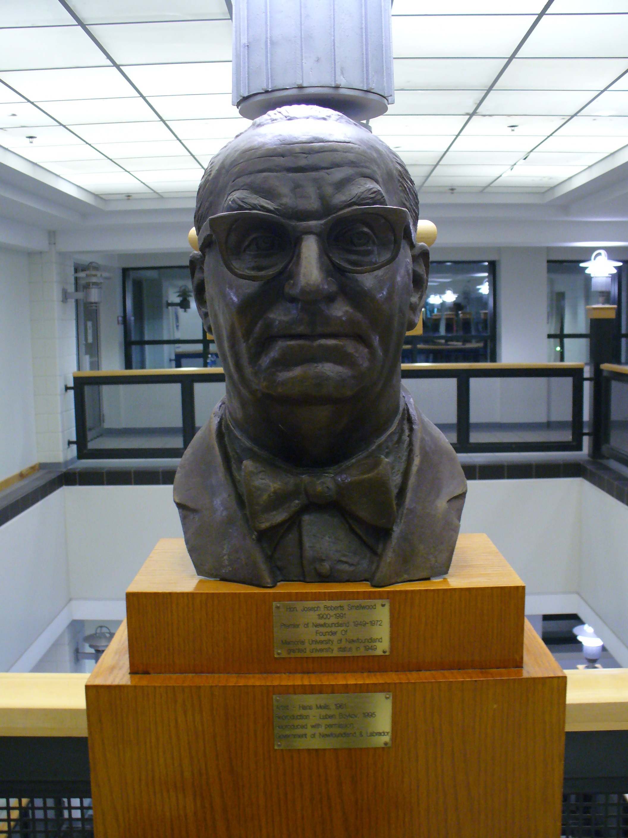 I am the originator of this photo. I hold the copyright. I release it to the public domain. This photo depicts a bust of Joey Smallwood which is displayed in the University Centre at Memorial University of Newfoundland.